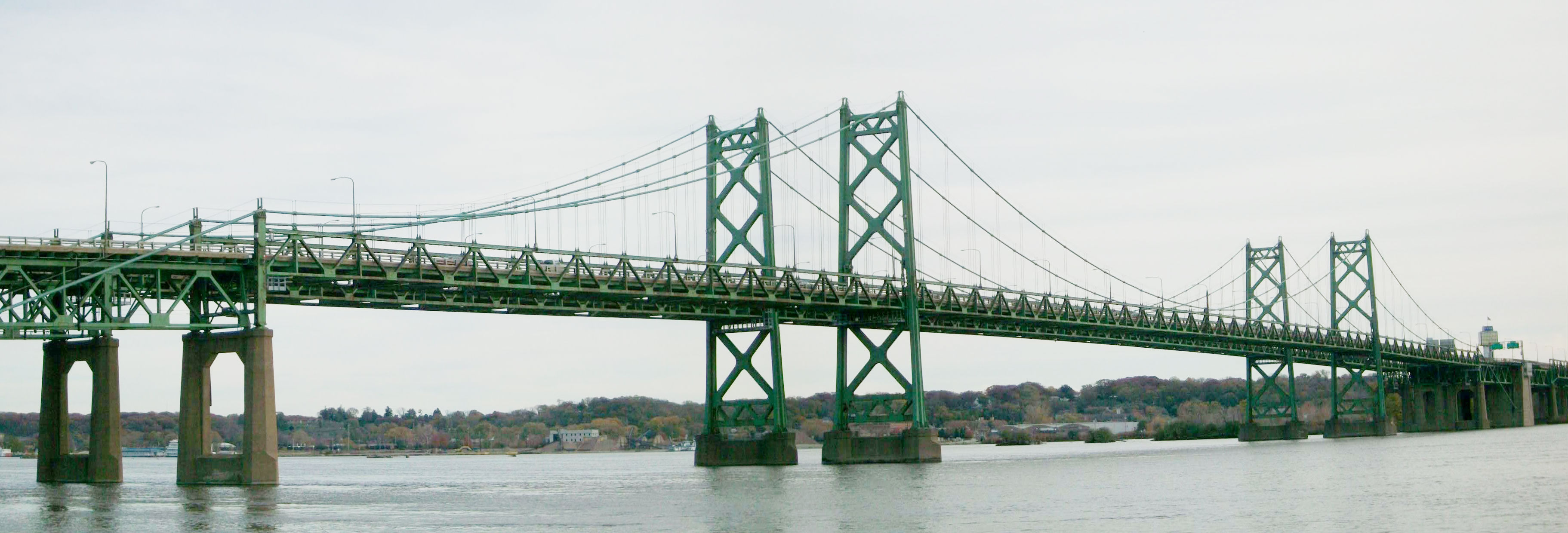 I-74 Bridge spanning the Mississippi River between Bettendorf, Iowa and Moline, Illinois